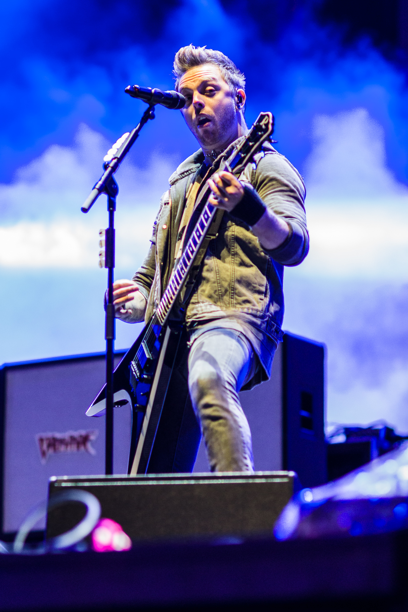 Matthew "Matt" Tuck, guitarist and vocalist of Bullet for My Valentine band. Ursynalia 2013 Warsaw Student Festival, Poland. This photo was taken with Sony SLT-A77 camera, thanks to cooperation with Sony Poland.You can see all photographs in category Taken with Sony SLT-A77. English | polski | +/−